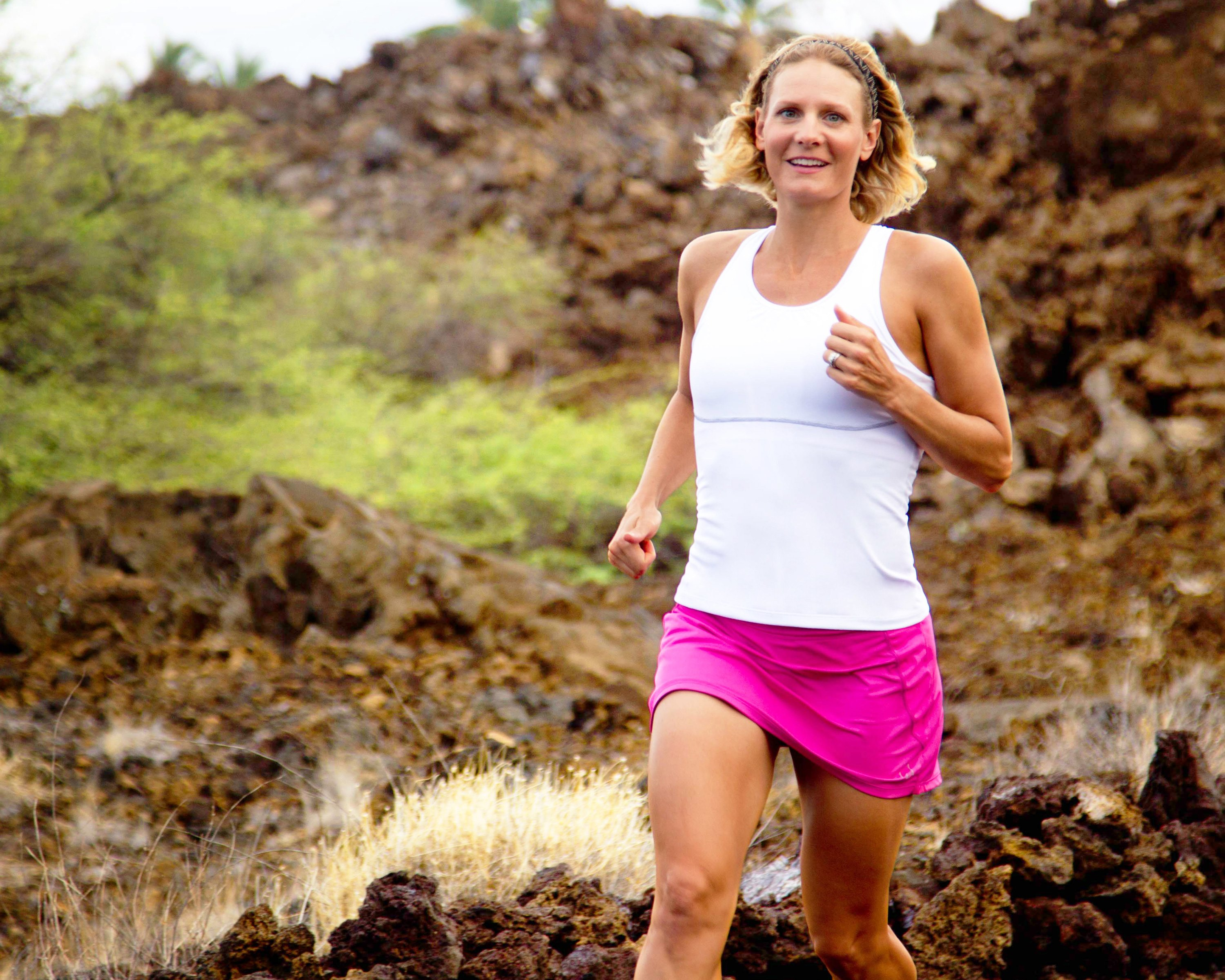 On her way to launching Skirt Sports in 2004, professional triathlete Nicole DeBoom won an Ironman wearing a home-sewn prototype. This skirt is the symbol of our mission – Fitness clothing with the perfect balance of Fashion, Performance and Attitude! Skirt Sports inspires women of all ages, backgrounds and abilities to transcend their perceived limits and pursue their greatest ambitions. We celebrate each woman’s strength and beauty as she embraces the transformative power of fitness and has fun doing it. When you look good, you feel good and when you feel good, you perform better. stickers, sticker, stickergiant, sports,womans sports attire,Skirt Sports